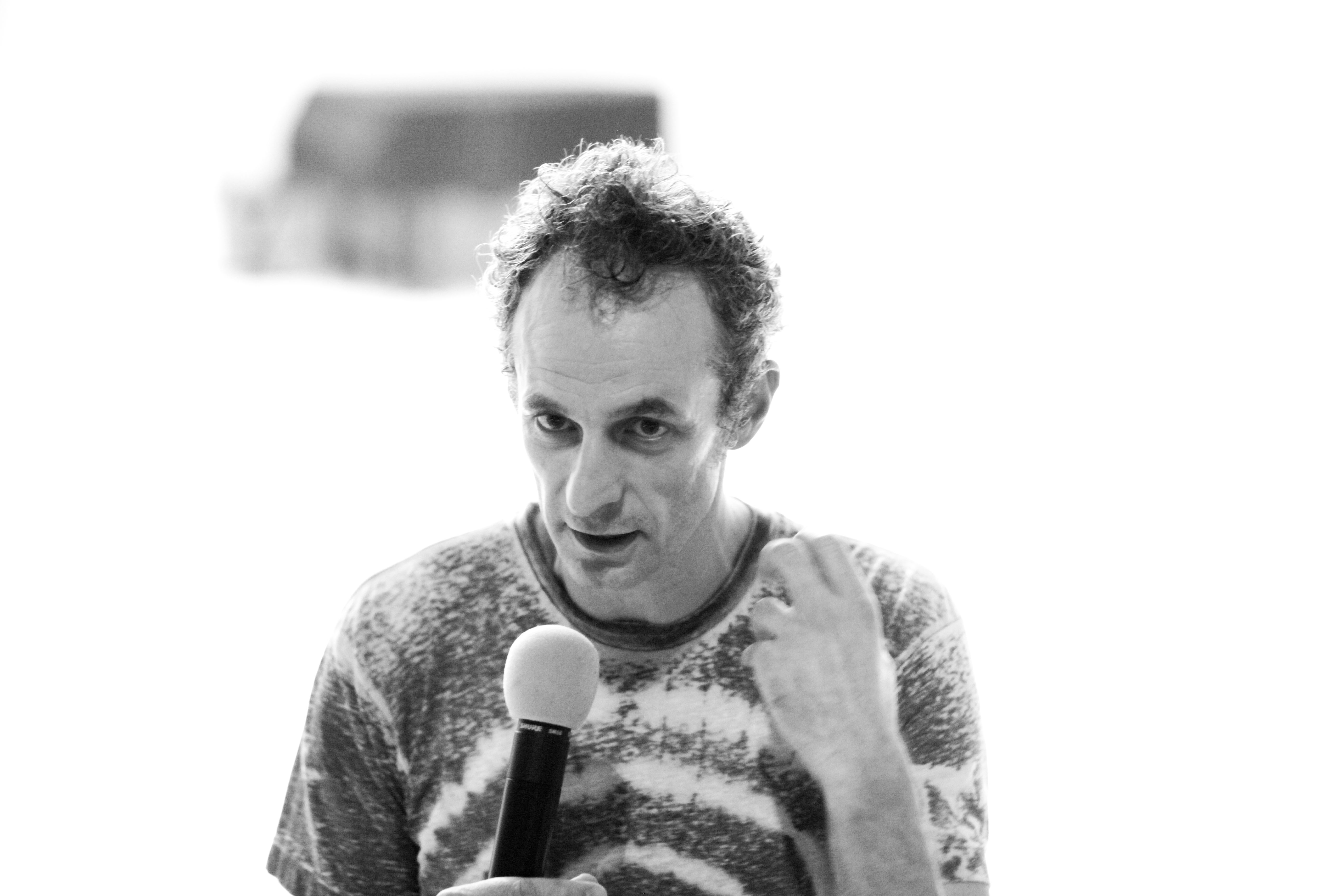 French contemporary choreographer Xavier Le Roy in 2010